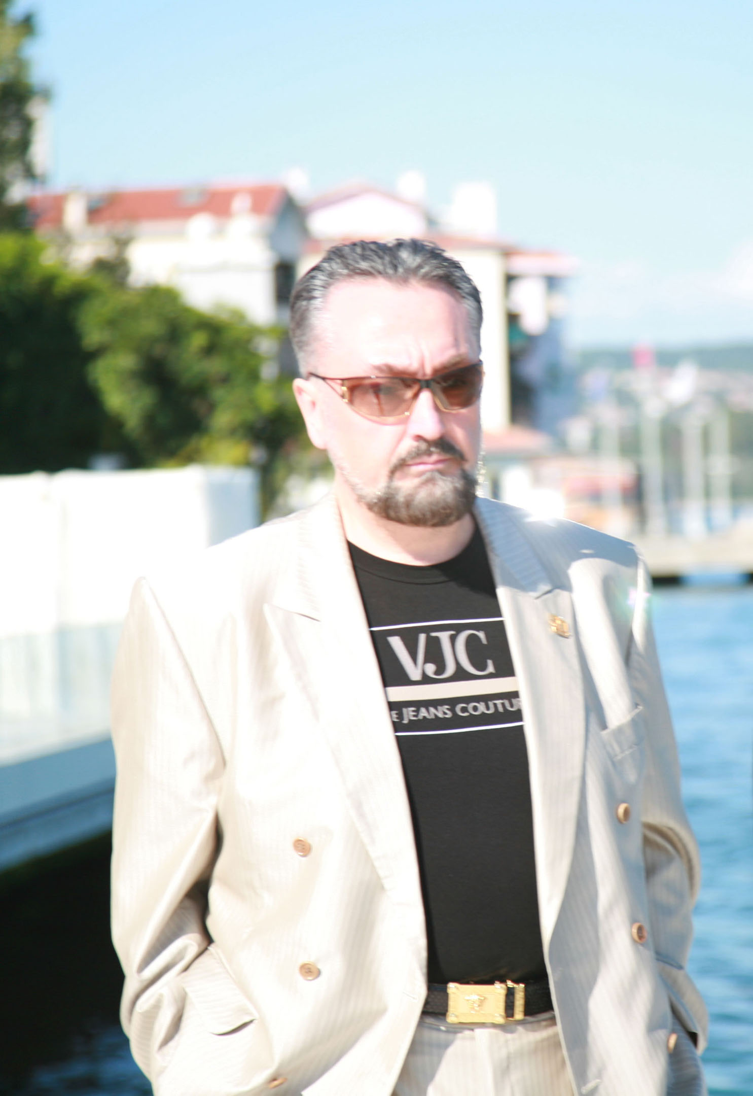 Adnan Oktar with Versace-T-shirt in Istanbul in 2007.